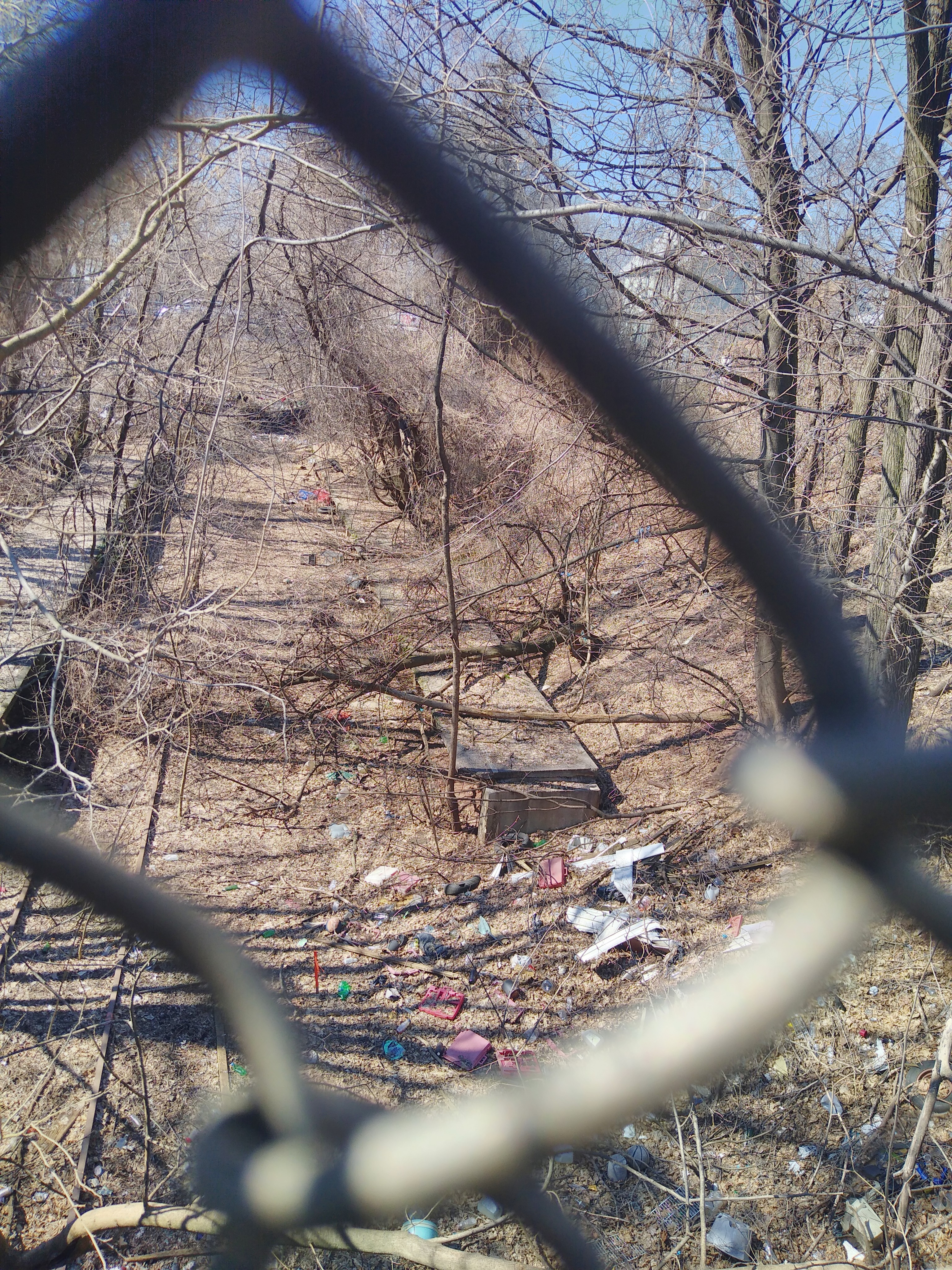 Looking west from Lake Avenue overpass